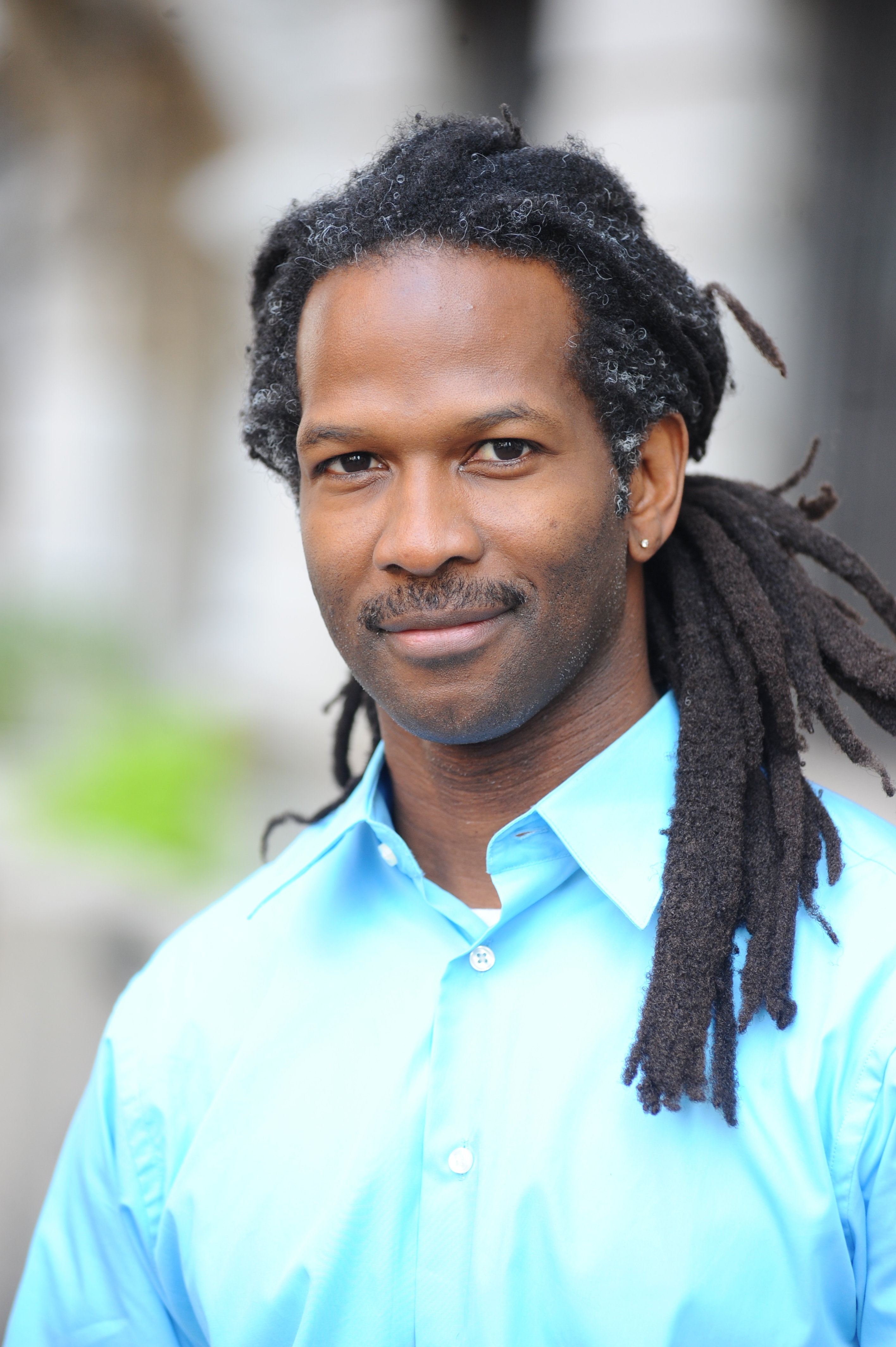 In his lecture Rethinking Drug Policy at SFU, controversial scientist Carl Hart provides a “rare insight into the often deep misunderstanding of illicit drugs," says the Guardian newspaper.